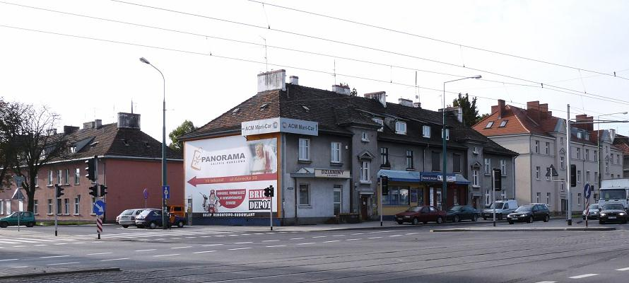 Poznan - Gorczyn District.